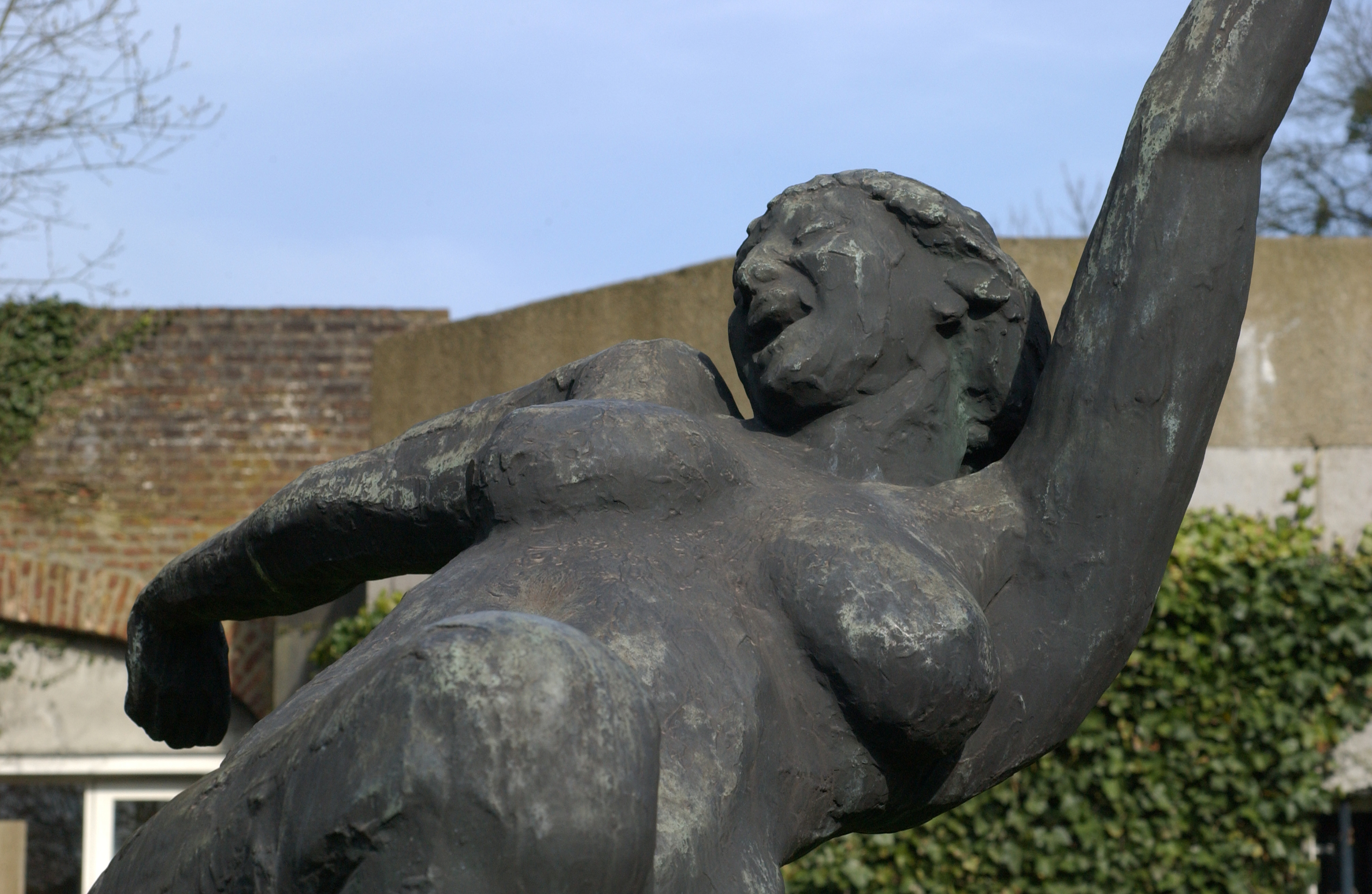 Rik Wouters, "The Mad Virgin", 1912, The Sart-Tilman Open-air Museum, Colonster Castle, University of Liège, Belgium.